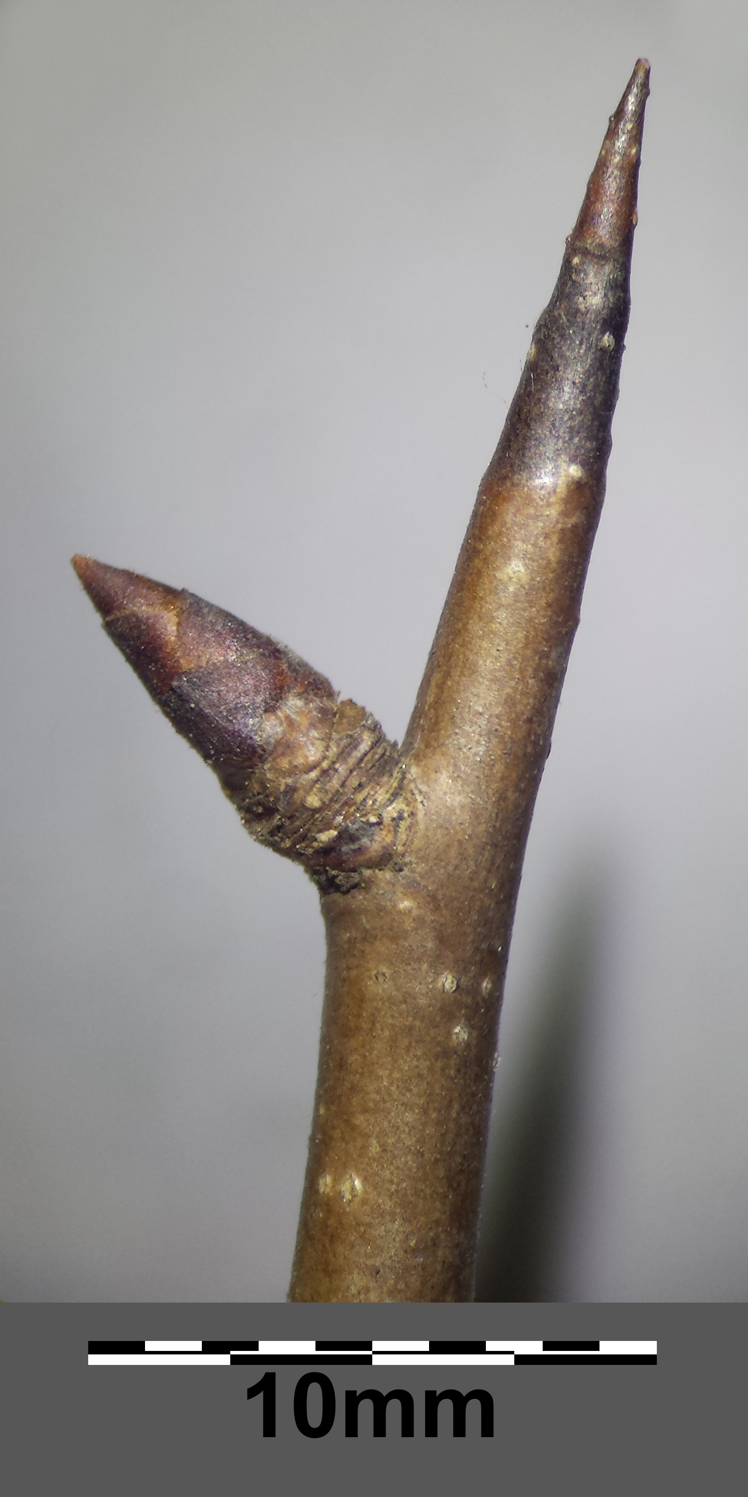 Spiny branch with short shoot and bud Taxonym: Pyrus pyraster ss Fischer et al. EfÖLS 2008 ISBN 978-3-85474-187-9 Location: near Niederhollabrunn, district Korneuburg, Lower Austria - ca. 350 m a.s.l. Habitat: shrubbery